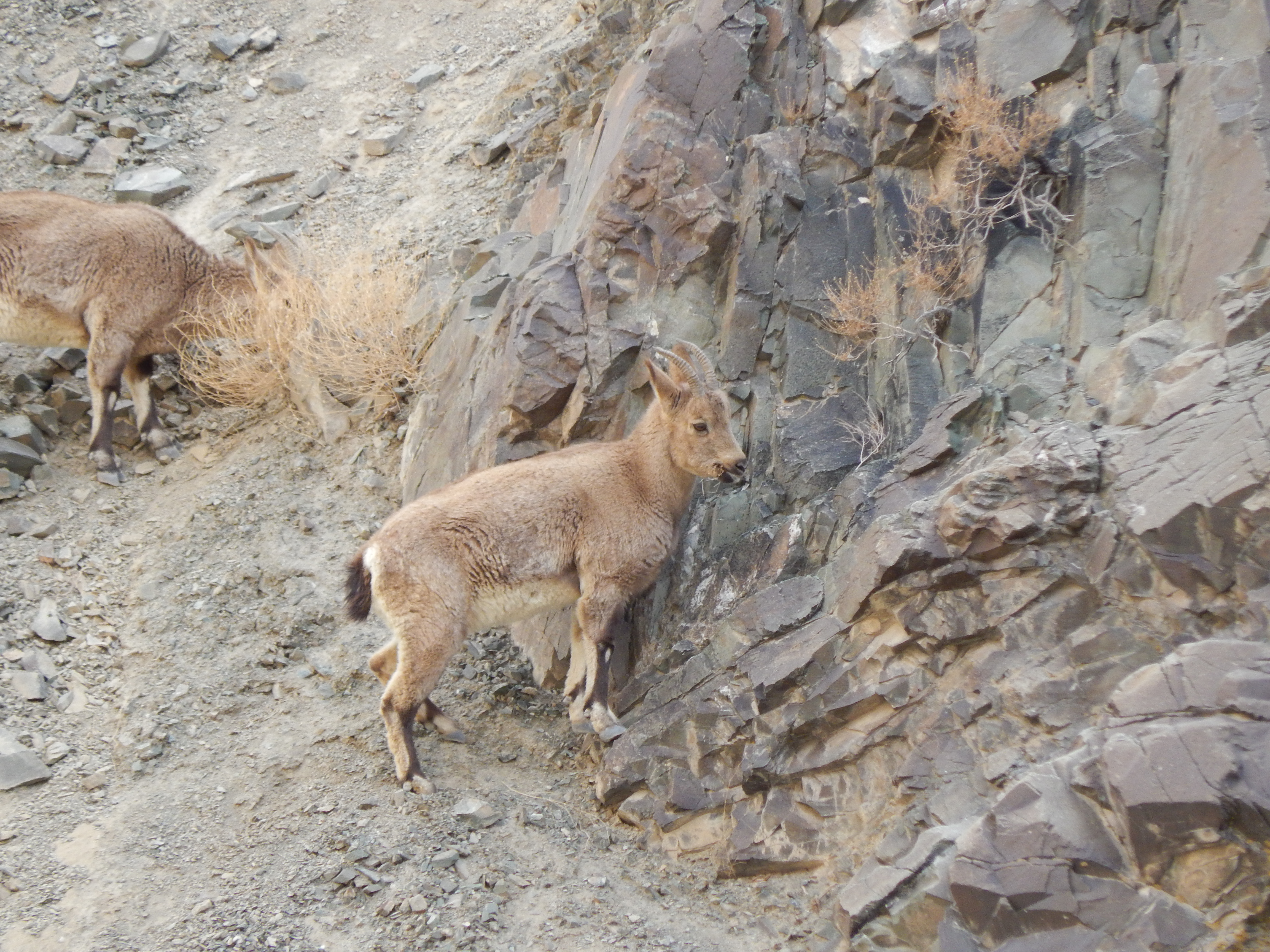 Female Siberian ibex (Capra sibirica) near Kargil, J&K, India